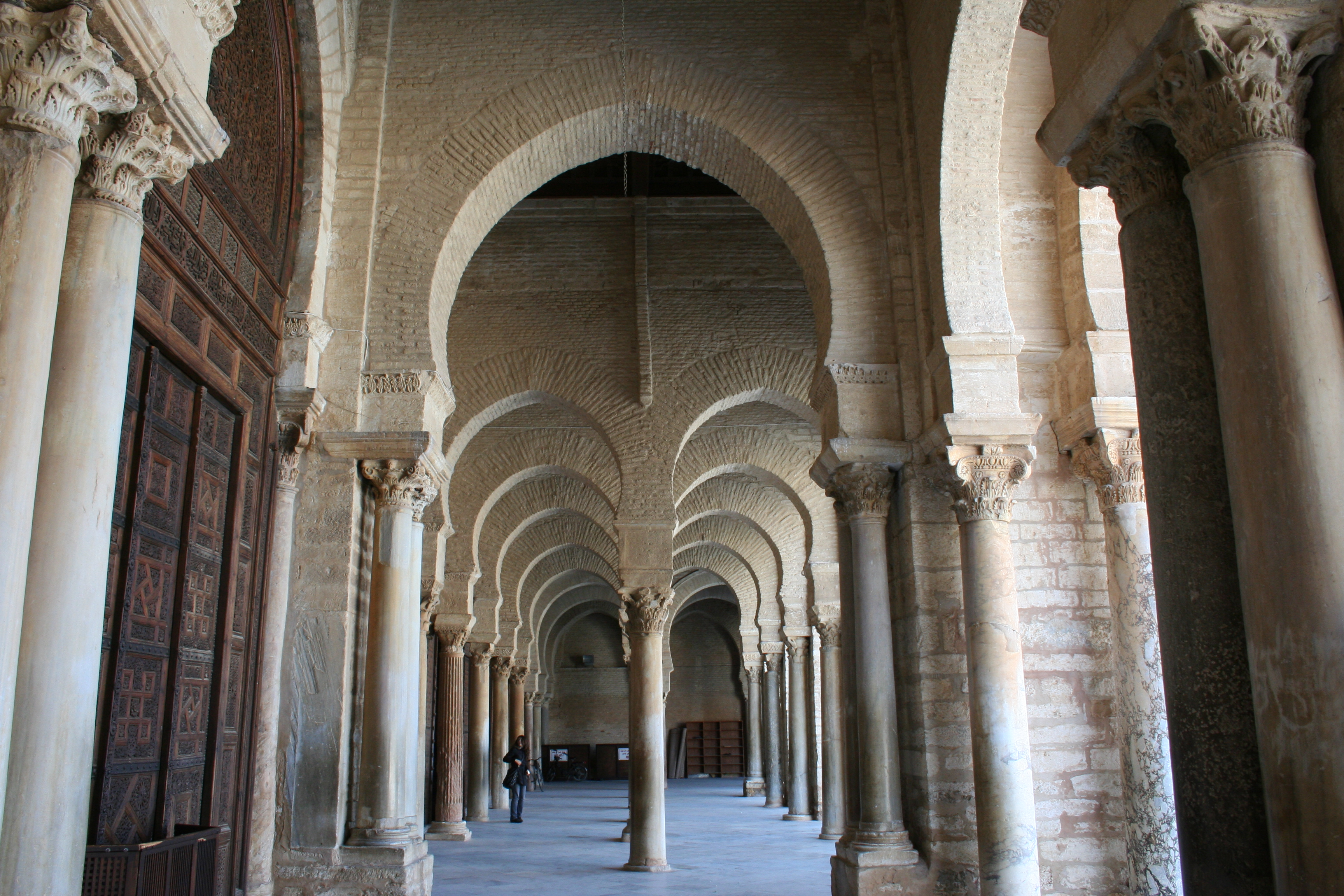 Gallery of the Great Mosque of Kairouan